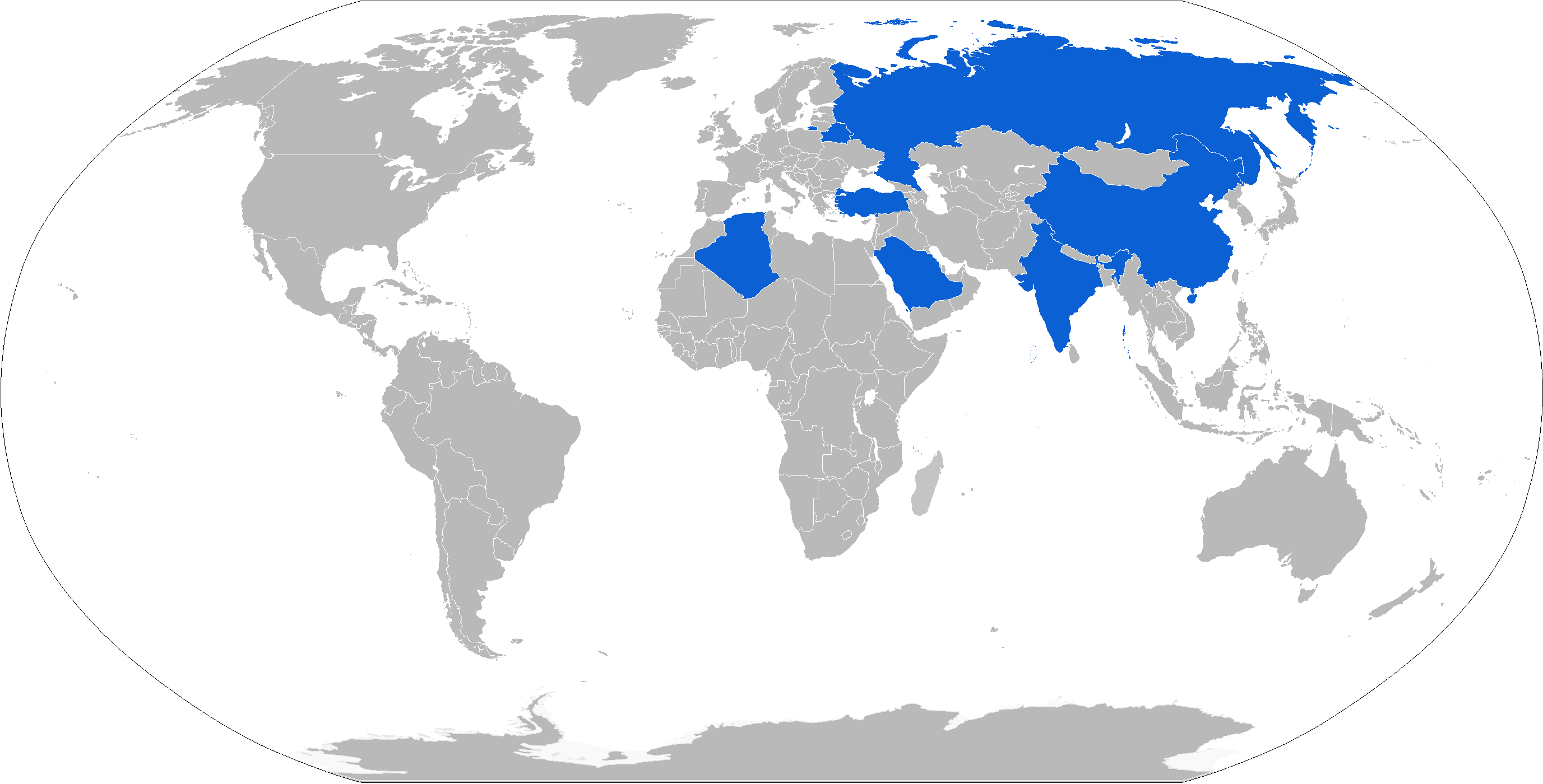 Map with S-400 operators in blue